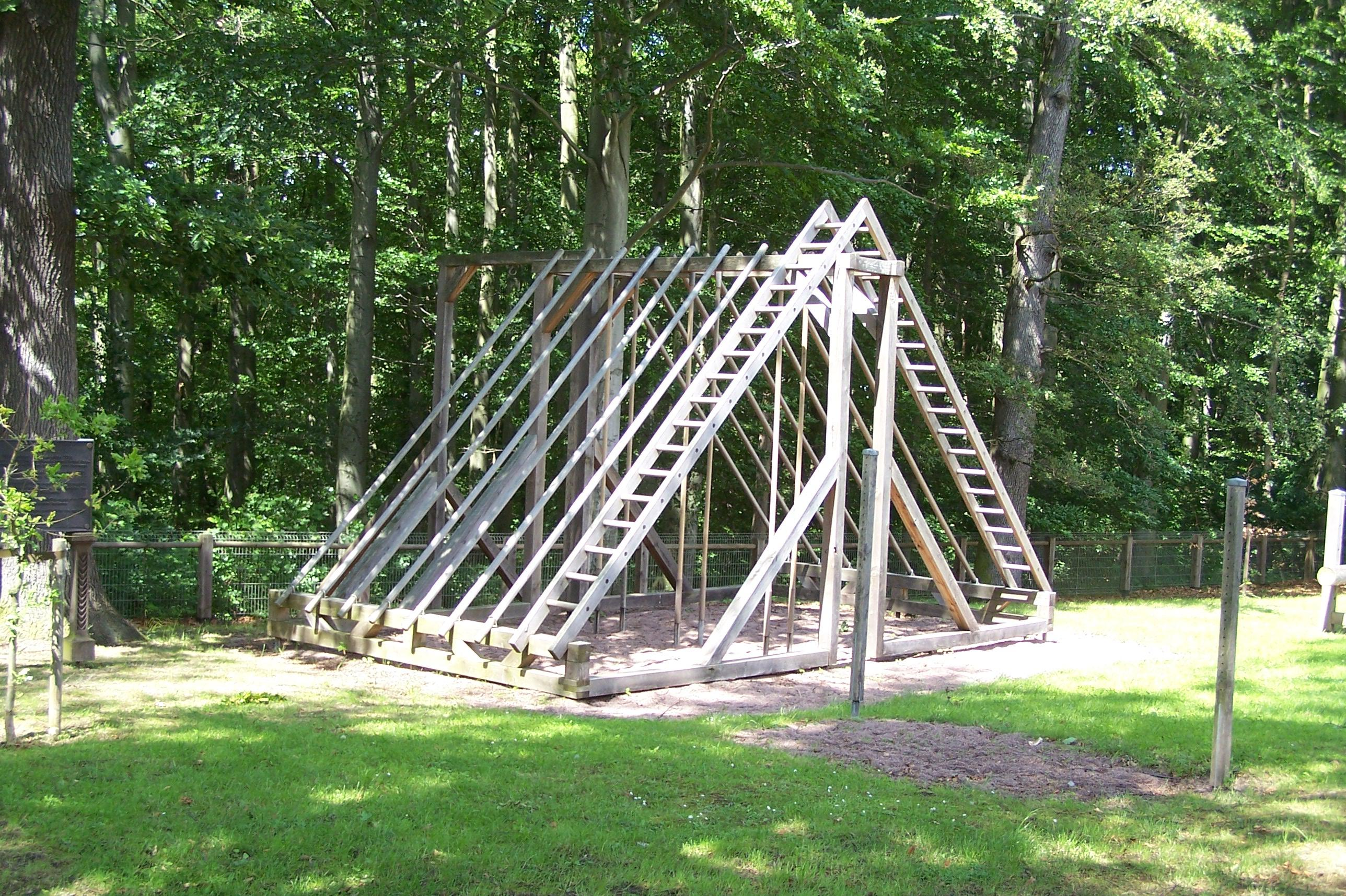 The first and oldes sports field in Germany in Schnepfenthal, Thuringia.